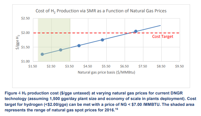 Hydrogen Production Roadmap, November 2017. pp.18